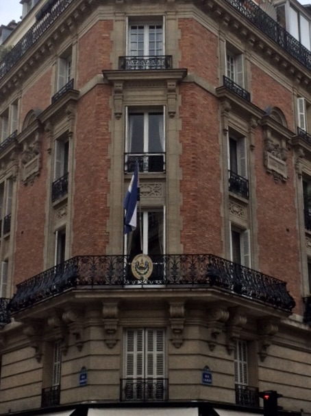 Embassy of El Salvador in Paris, France